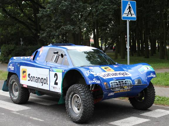 Jean-Louis Schlesser (driver, FRA), Konstantin Zhiltsov (co-driver, RUS), Schlesser Original, Baja Poland 2012